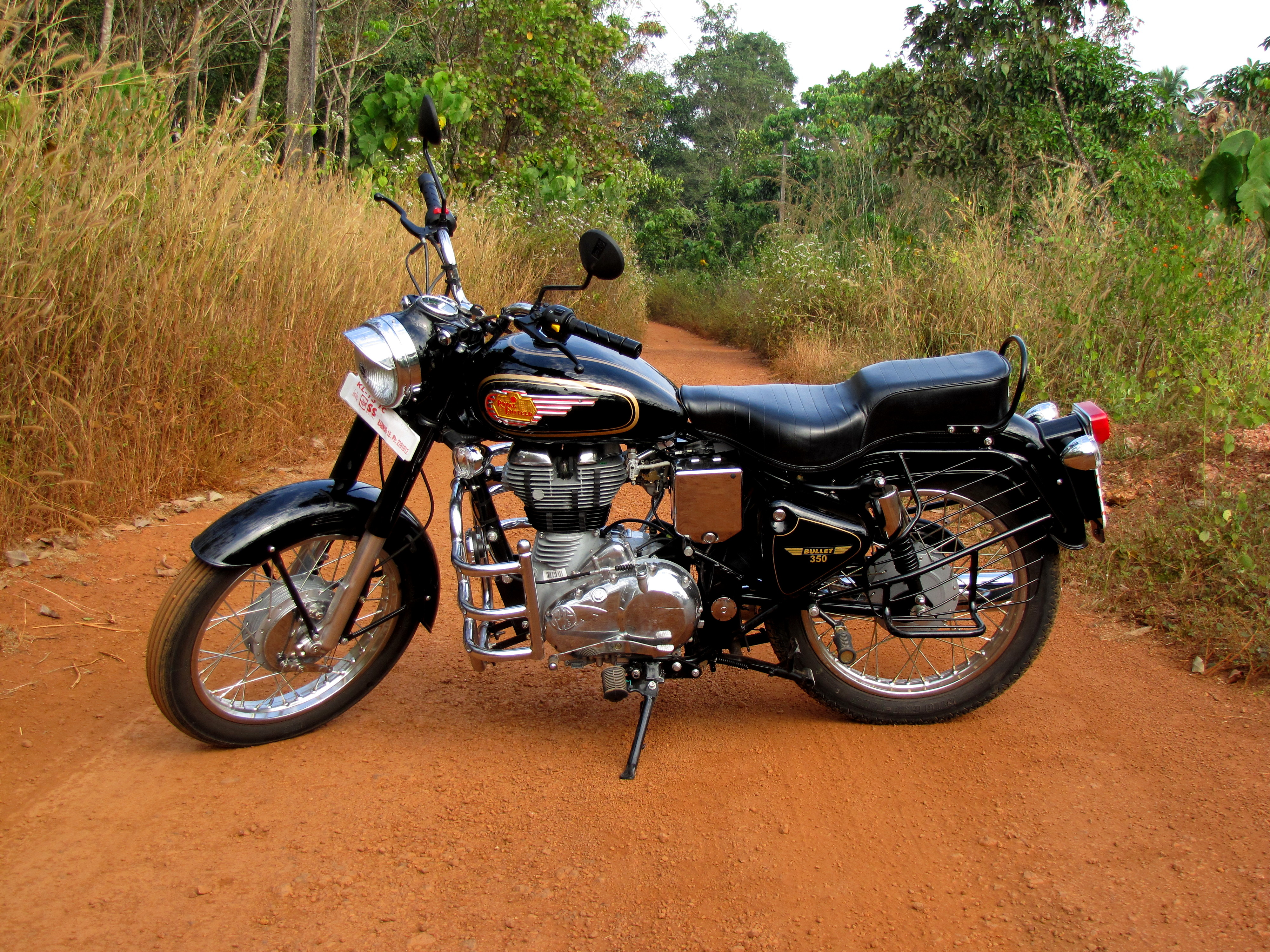 Royal Enfield Bullet 350 Twinspark on country side road in Kannur